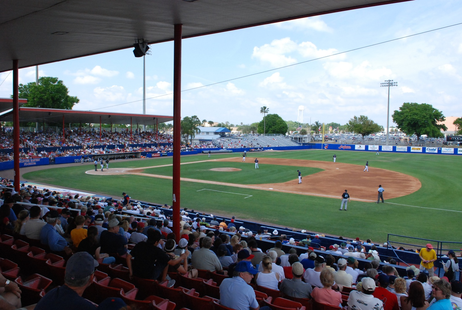 Cleveland Indians vs Toronto Blue Jays at Chain of Lakes Park in Winter Haven, Florida